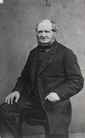 Jens Jørgensen (1806-1876), Danish farmer and politician, MP